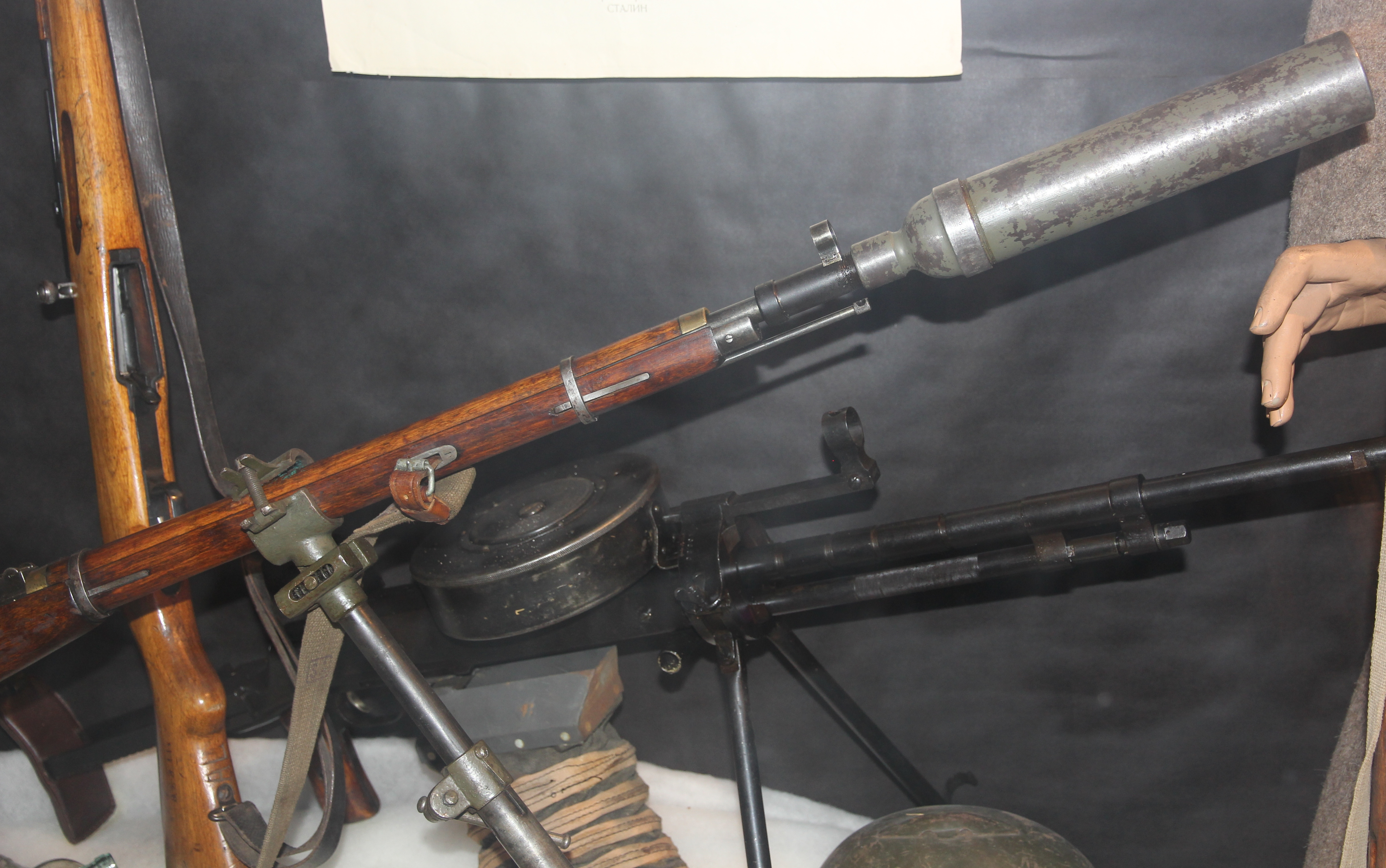 Soviet weapons used during Winter War. Mosin-Nagant rifle fitted with rifle grenade launcher. Behind the grenade rifle are Simonov AVS-36 rifle and Degtyarev DT-27 light machine gun. Photographed in Mikkeli infantry museum.